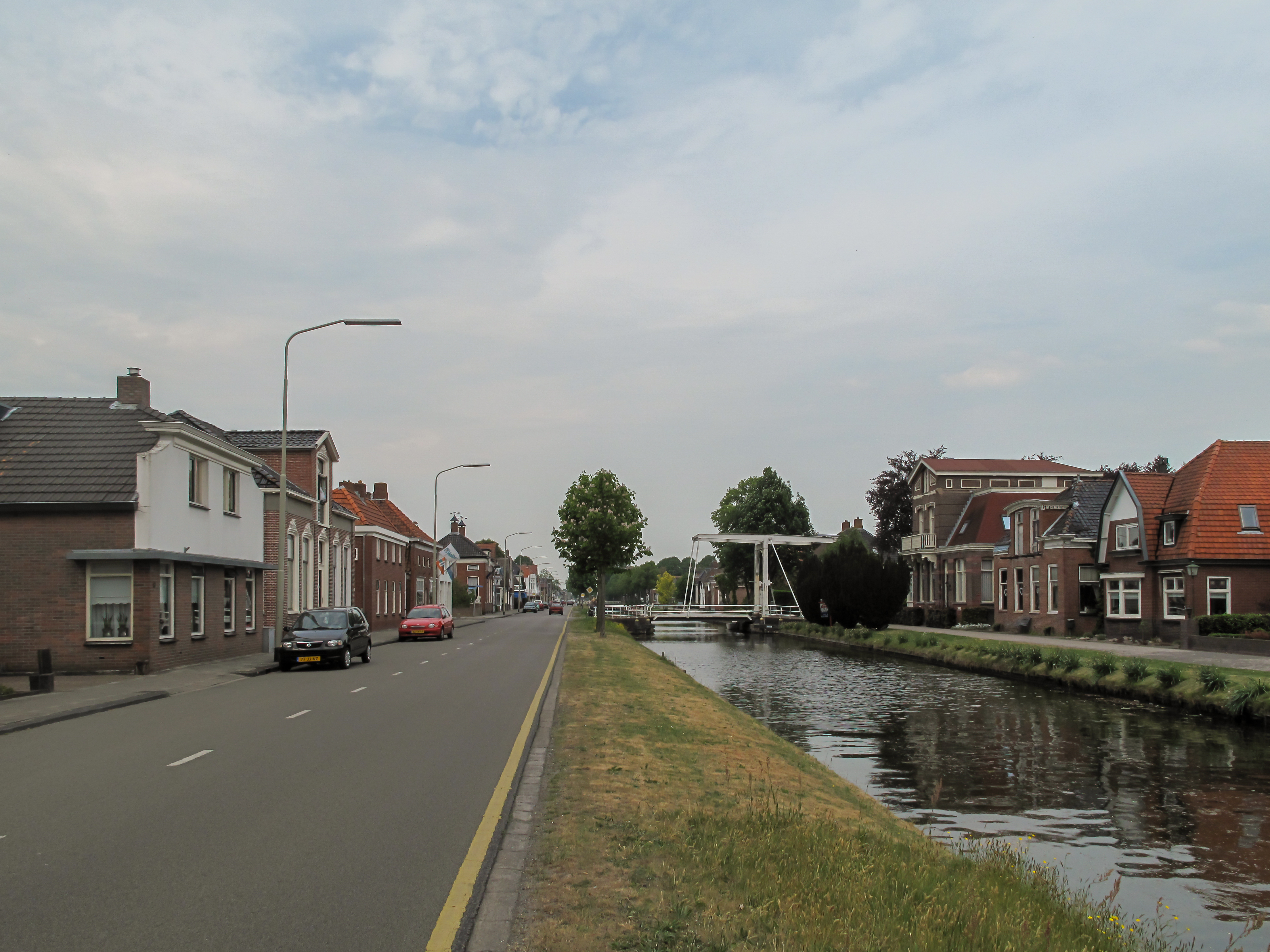 Wildervank, drawbridges in the street